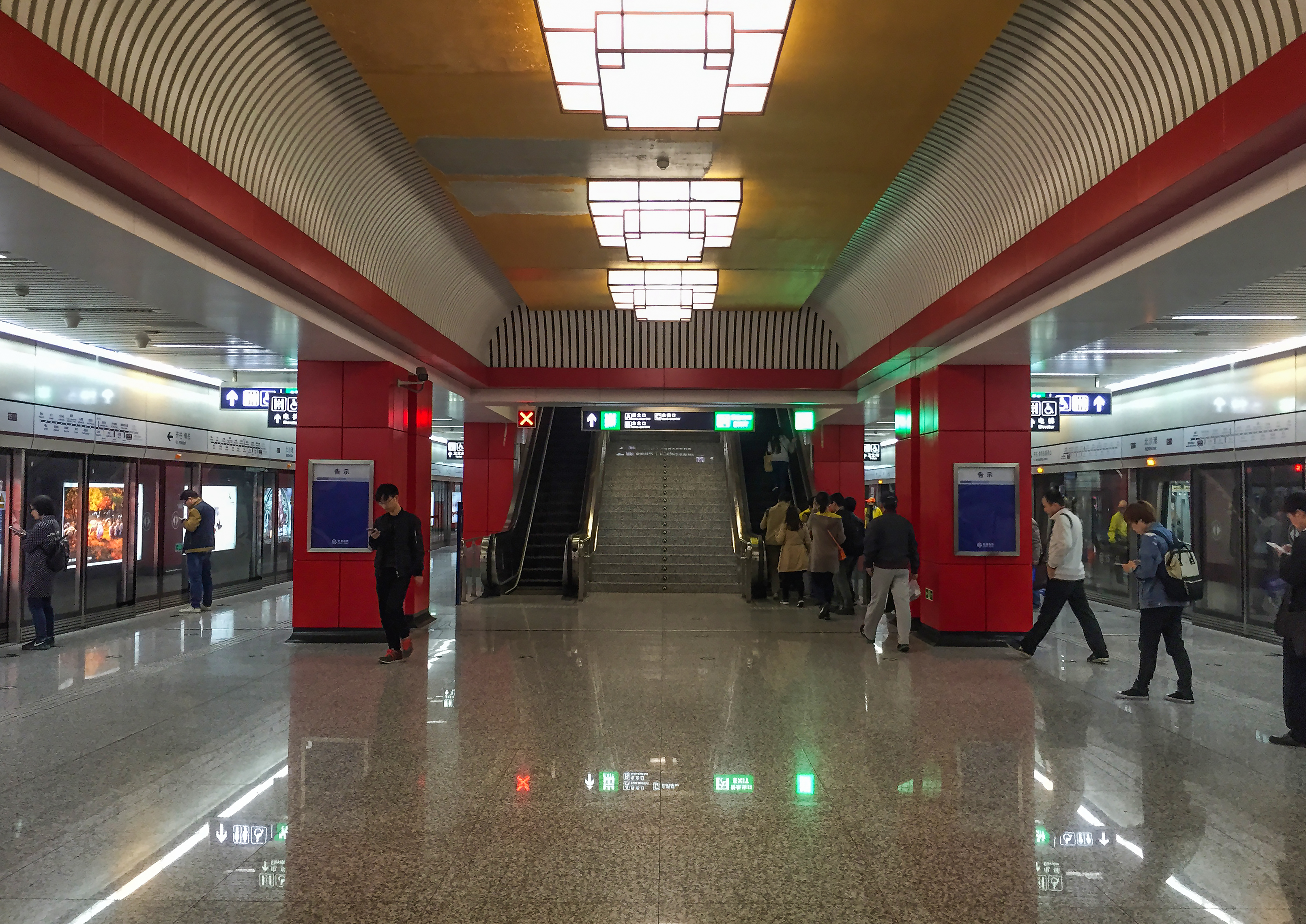 This time I have to disembark here. Some stations of L15 are forerunners for the configuration of L16 stations.